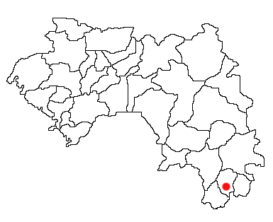 Nzérékoré, Guinea Location Map; created with the GIMP. Made by User:Acntx.